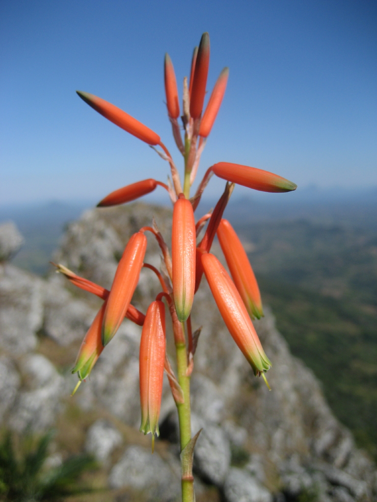 Aloe inyangensis at Monte Gurungue in Manica district of Mozambique